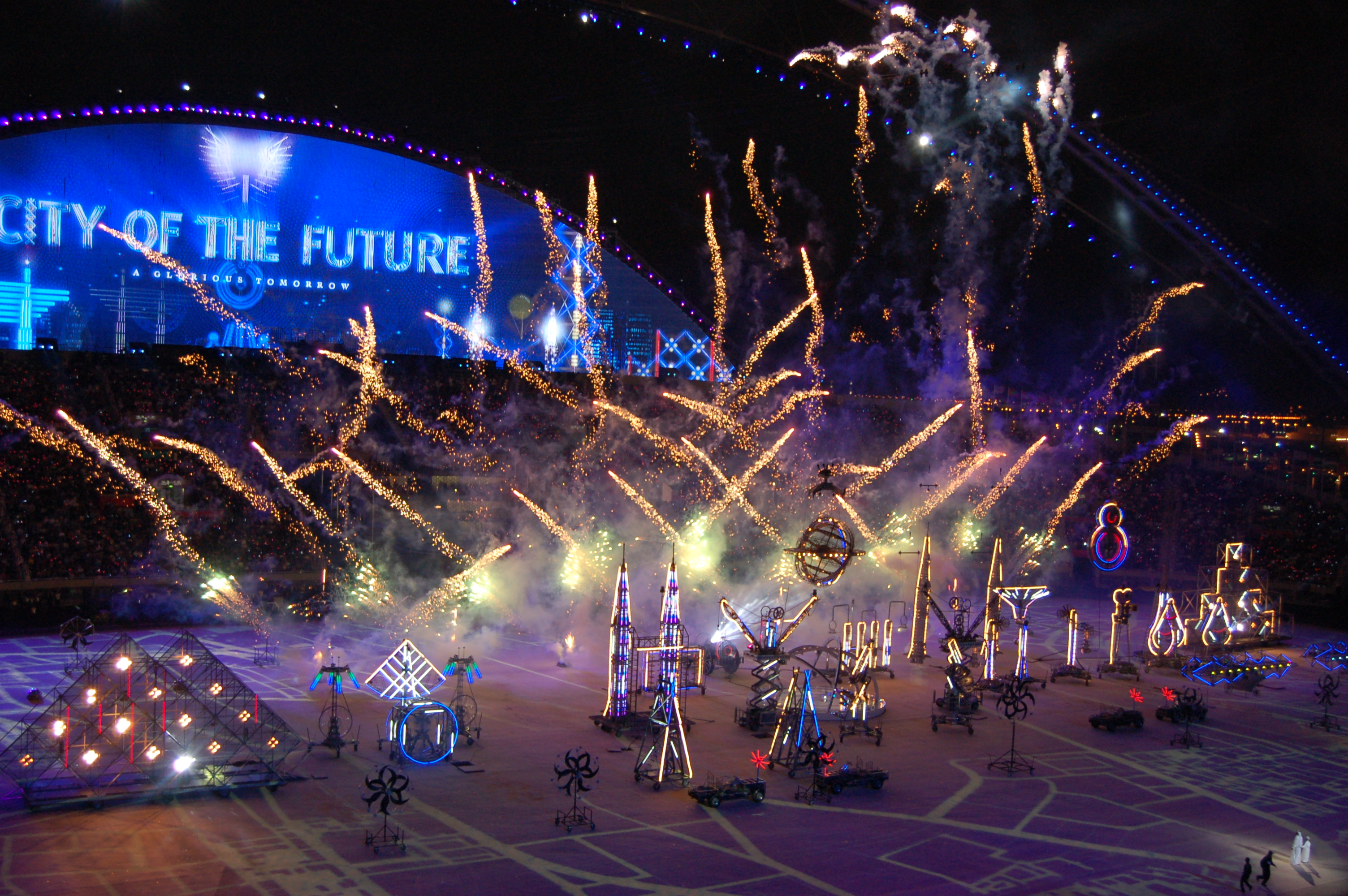 A show during the opening ceremony of the 2006 Asian Games.